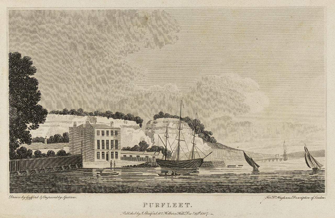 Purfleet. For Dr Hughson's Description of London Copper-plate print lettered, lower right of image 'For Dr Hughson's Description of London'. Purfleet is on the Essex (north) shore of the Thames, 16 miles east of London. It is possible that the house shown here belonged at some point to one of the Green family of shipbuilders and owners. David Hughson's 'New Description of London' and the area for thirty miles around was a multi-volume illustrated work issued between 1805 and 1809. Purfleet. For Dr Hughson's Description of London